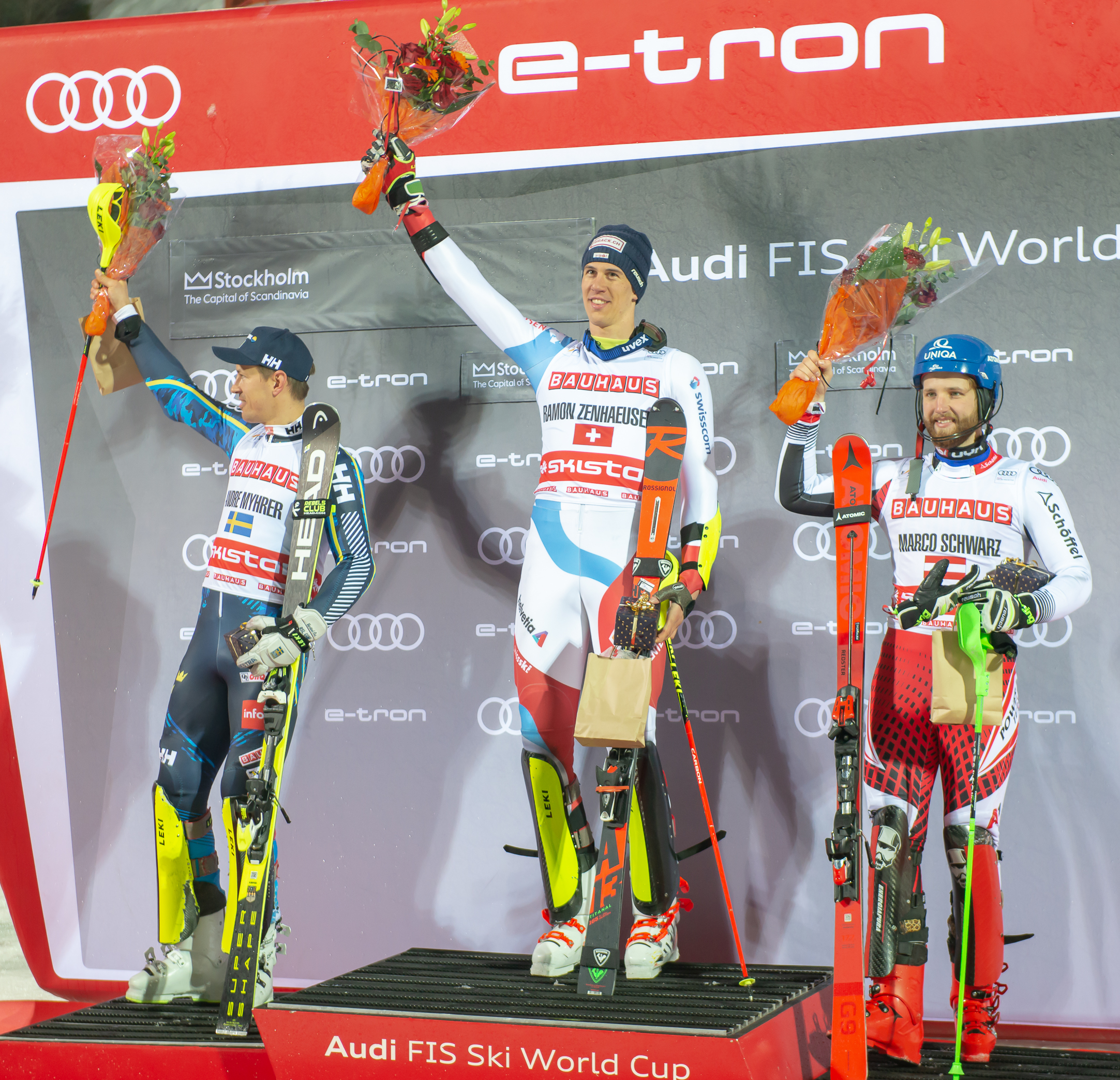 FIS Alpine Skiing World Cup in Stockholm 2019